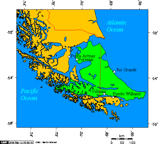 Shows the main island of the archipelago of Tierra del Fuego.